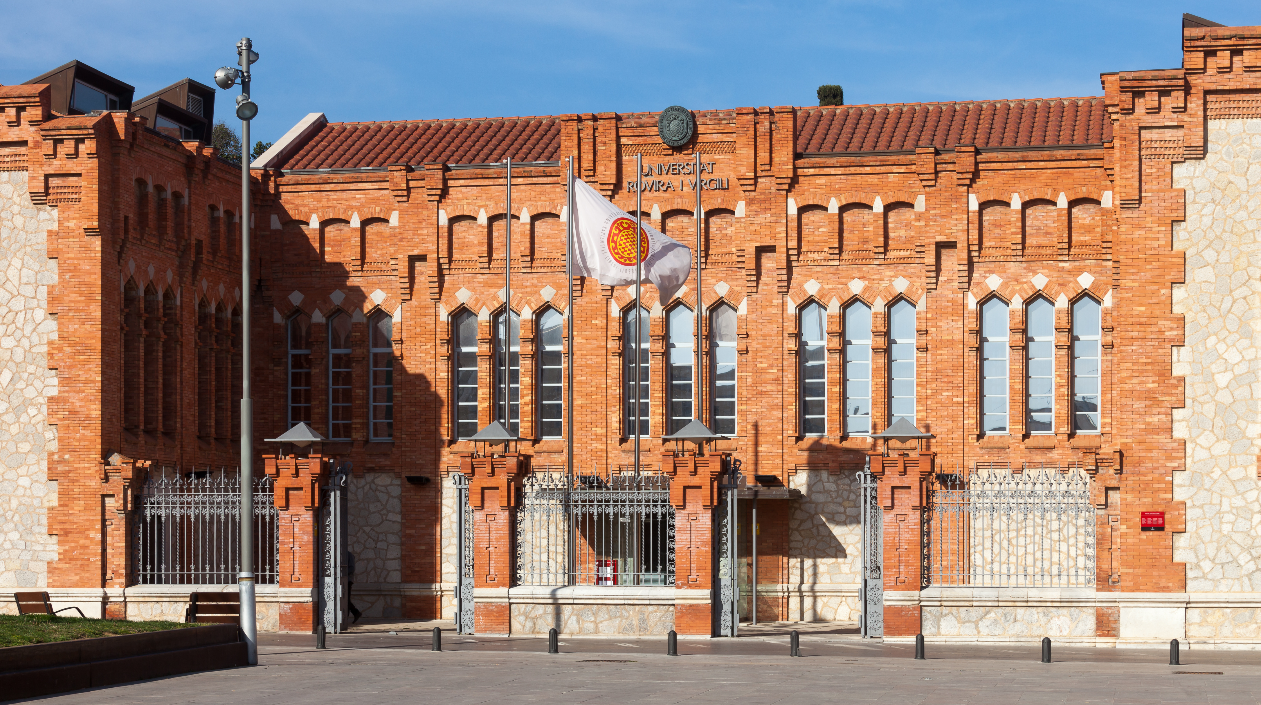 Buildin of the University 'Rovira i Virgili'. Tarragona, Catalonia.